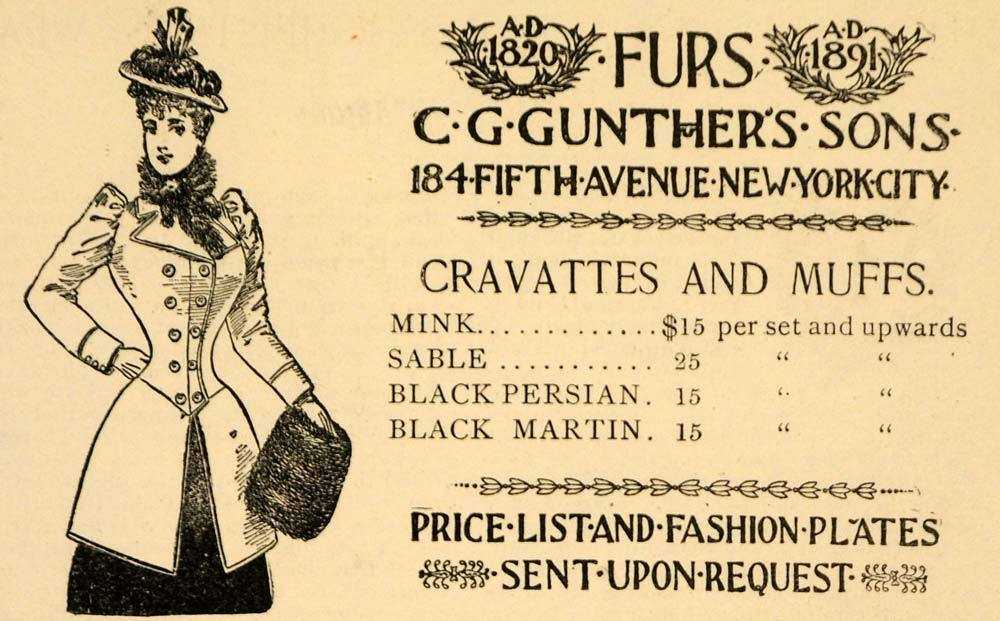 Furs C. G. Gunther's Sons, New York, 184 Fifth Avenue, A. D. 1820, advertisement (1891). Furs, cravattes and muffs.